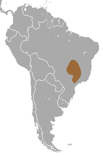 Dwarf Fat-tailed Mouse Opossum (Thylamys velutinus) range